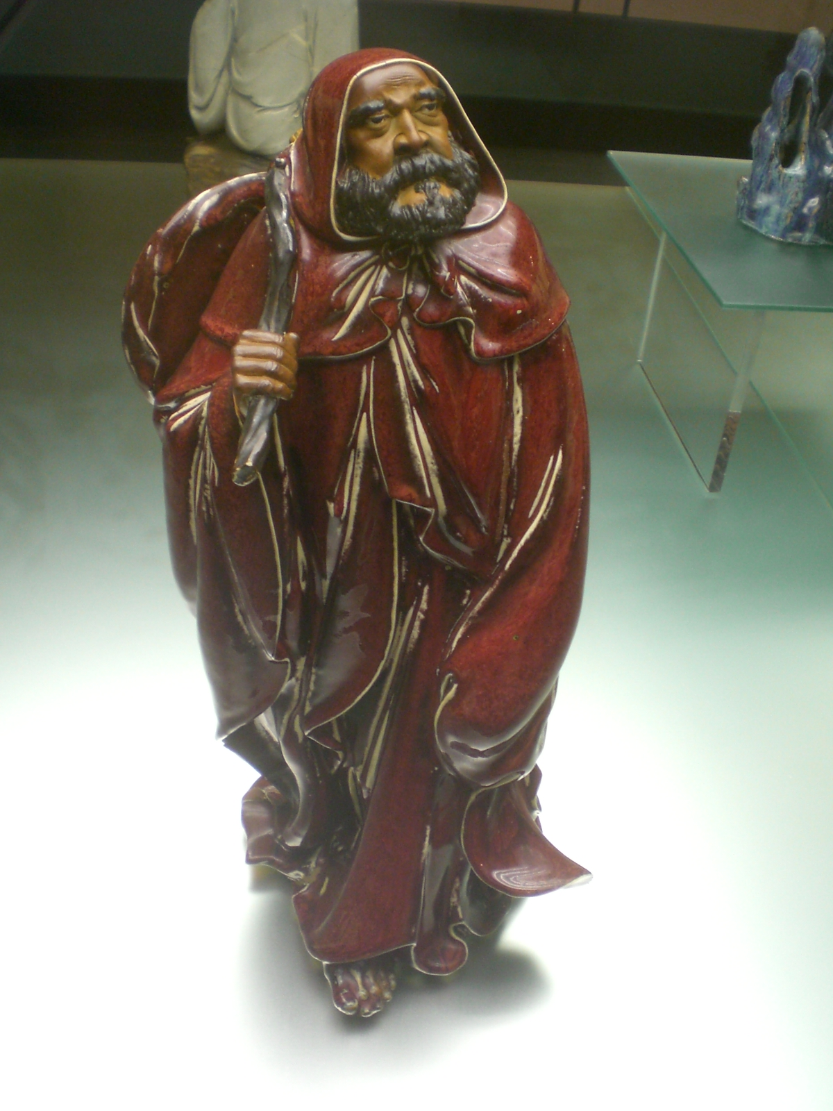 philosopher ceramic at Tsim Sha Tsui (尖沙咀), Hong Kong Museum of Art.